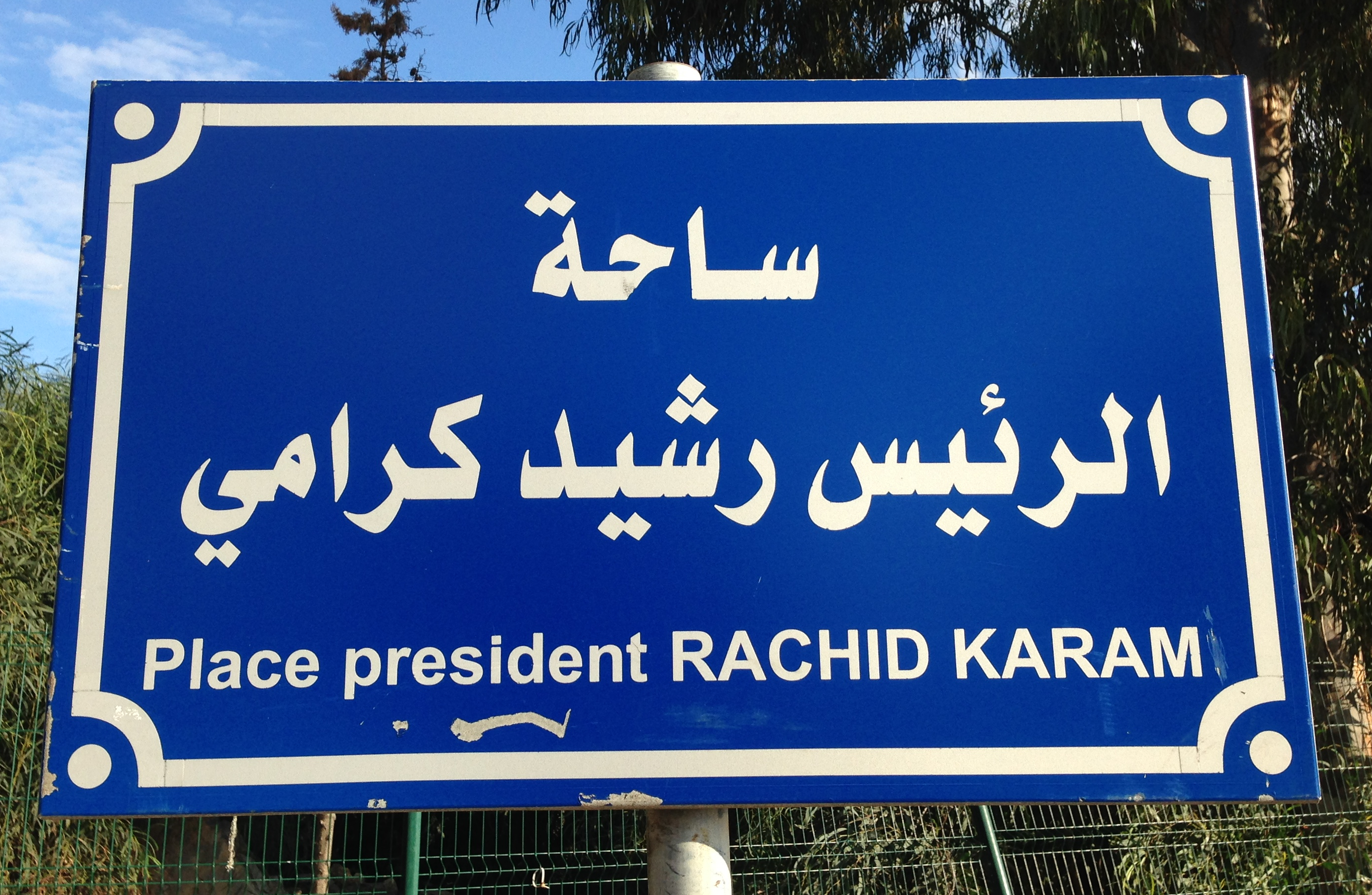 The Rashid Karami Square in the Southern Lebanese city of Tyre, named after the former President of Lebanon, located at the roundabout that links Rashid Karami Street, Abu Deeb Street and Dr. Ali El Khalil Street near the Western part of the Tyre Hippodrome UNESCO World Heritage site.